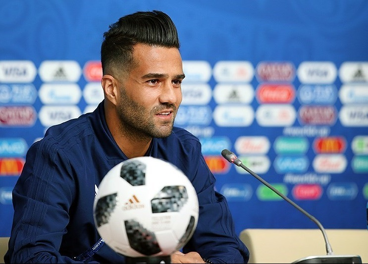 Iran-Morocco press conference, 2018 FIFA World Cup